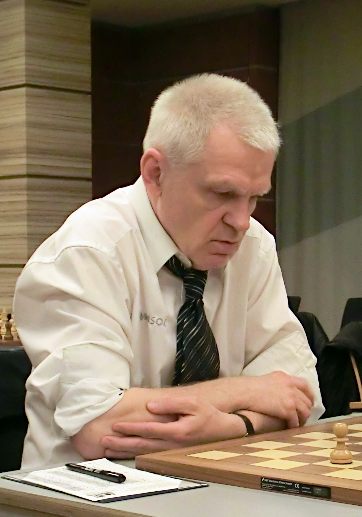 Zoltán Ribli, chess grandmaster from Hungary